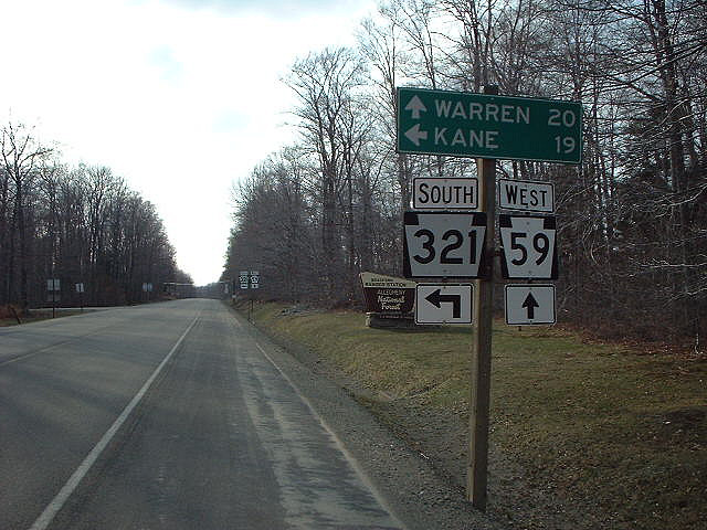 Westbound Pennsylvania Route 59/southbound Pennsylvania Route 321 at their split in Corydon Township